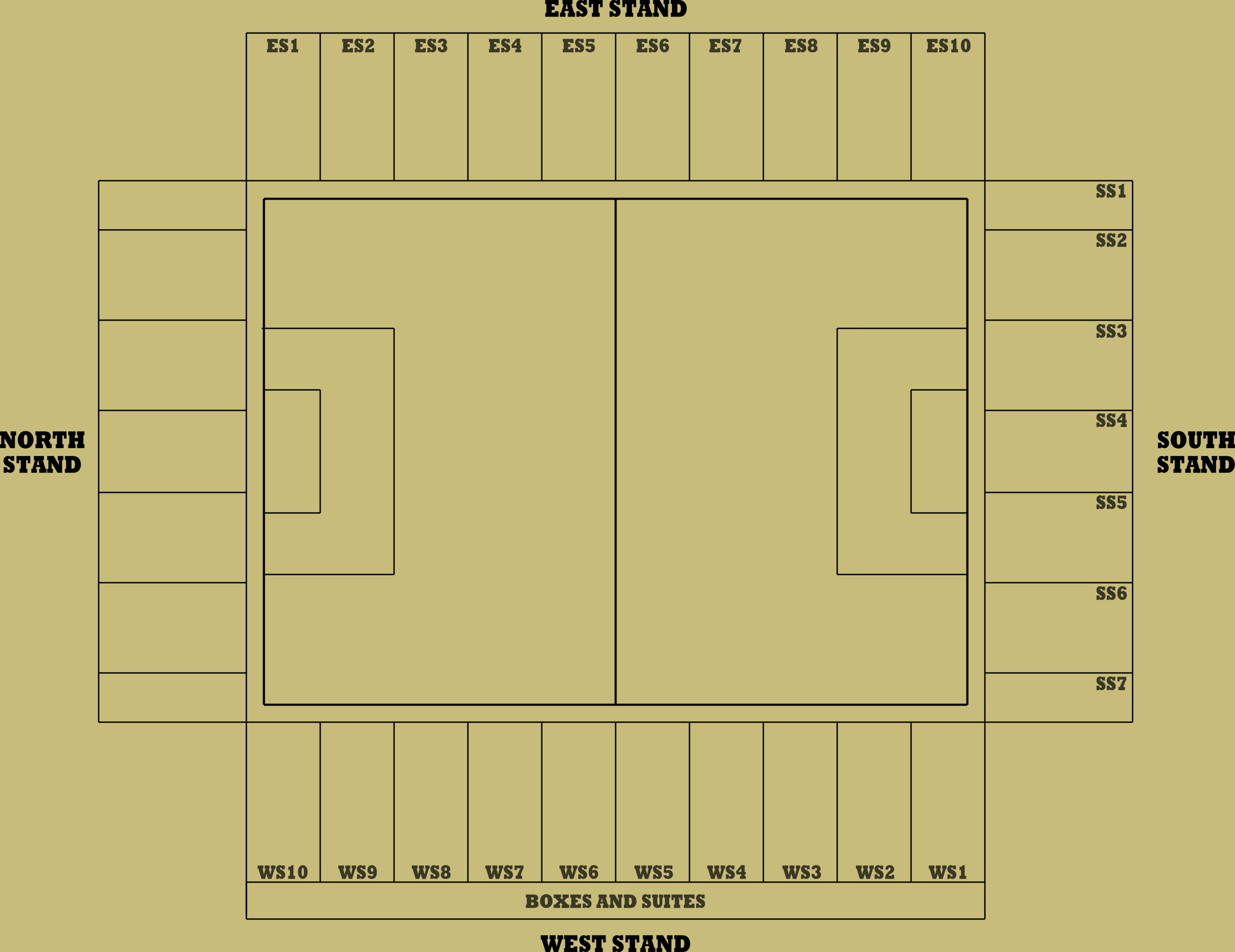 The JJB Stadium in Wigan, England — this is a derivative copy (not such good quality PNG) with the club badge (possibly a copyrighted logo) removed Uploader states: "Do not use this image for anything other than wikipedia and personal use."